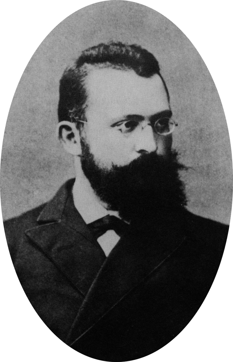 Heinrich Botho Scheube 1853-1923. Foto from the collection of T. Koseki, later kept by Kyoto Prefectural University of Medicine